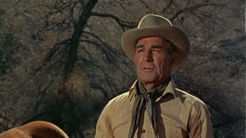 Randolph Scott in Buchanan Rides Alone (1958)